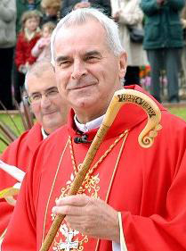 A photo of the Cardinal Keith Michael Patrick O'Brien.